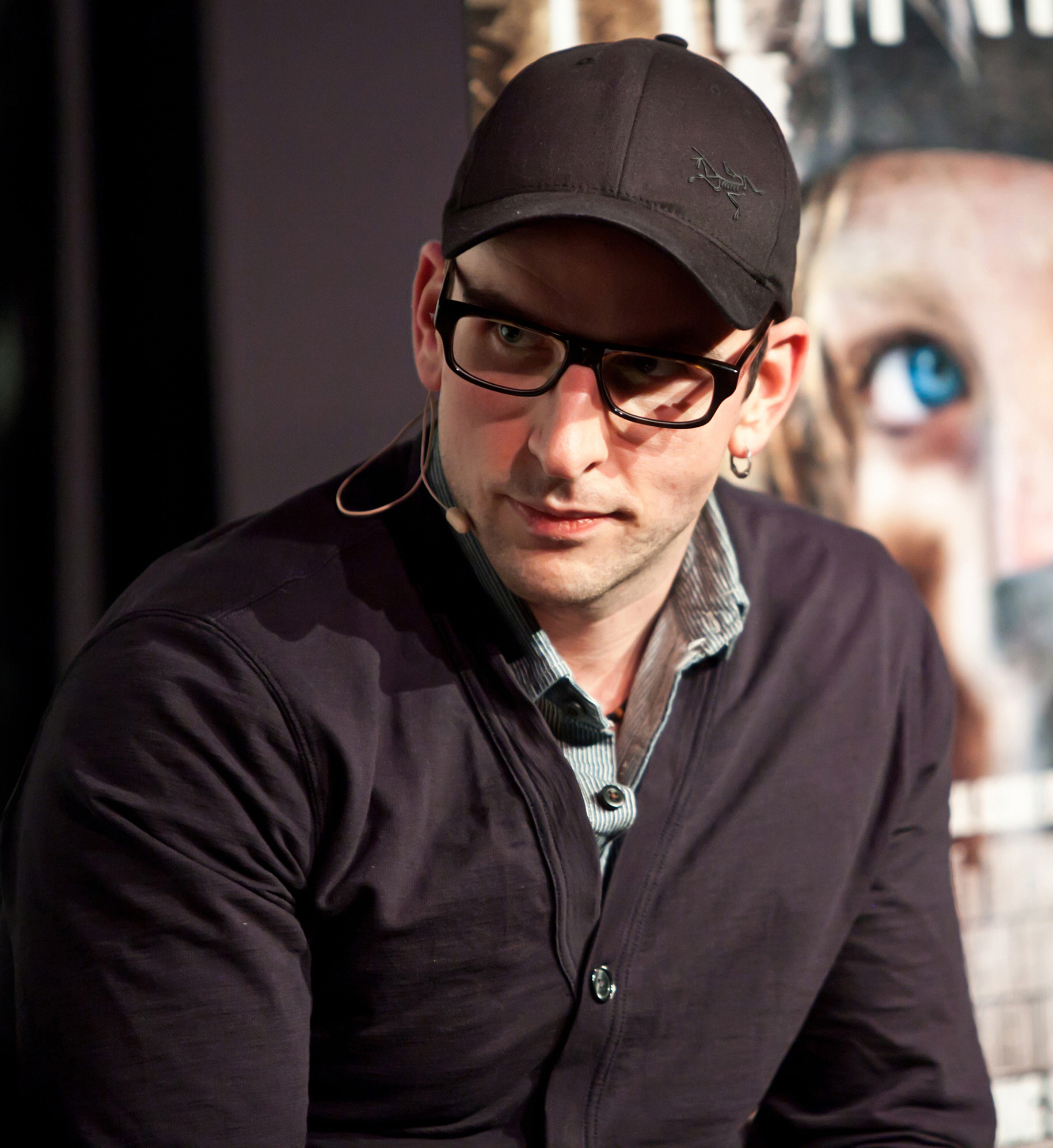 VFS proudly welcomed back Writing for Film & Television grad Seth Lochhead, writer of the thriller Hanna, for a special Q&A session about his time at VFS and his recent success. Originally a final student project in the VFS Writing program, Hanna is a fast-paced thriller directed by Joe Wright (Atonement) and stars Saoirse Ronan (Atonement) in the lead role. The film also stars Academy Award winner Cate Blanchett (Lord of the Rings) and Eric Bana (Munich). Variety calls this film “an exuberantly crafted chase thriller that pulses with energy from its adrenaline-pumping first minutes to its muted bang of a finish.” Discover how Seth’s screenplay evolved from first draft to world premiere at Find out more about VFS’s one-year Writing for Film & Television program at